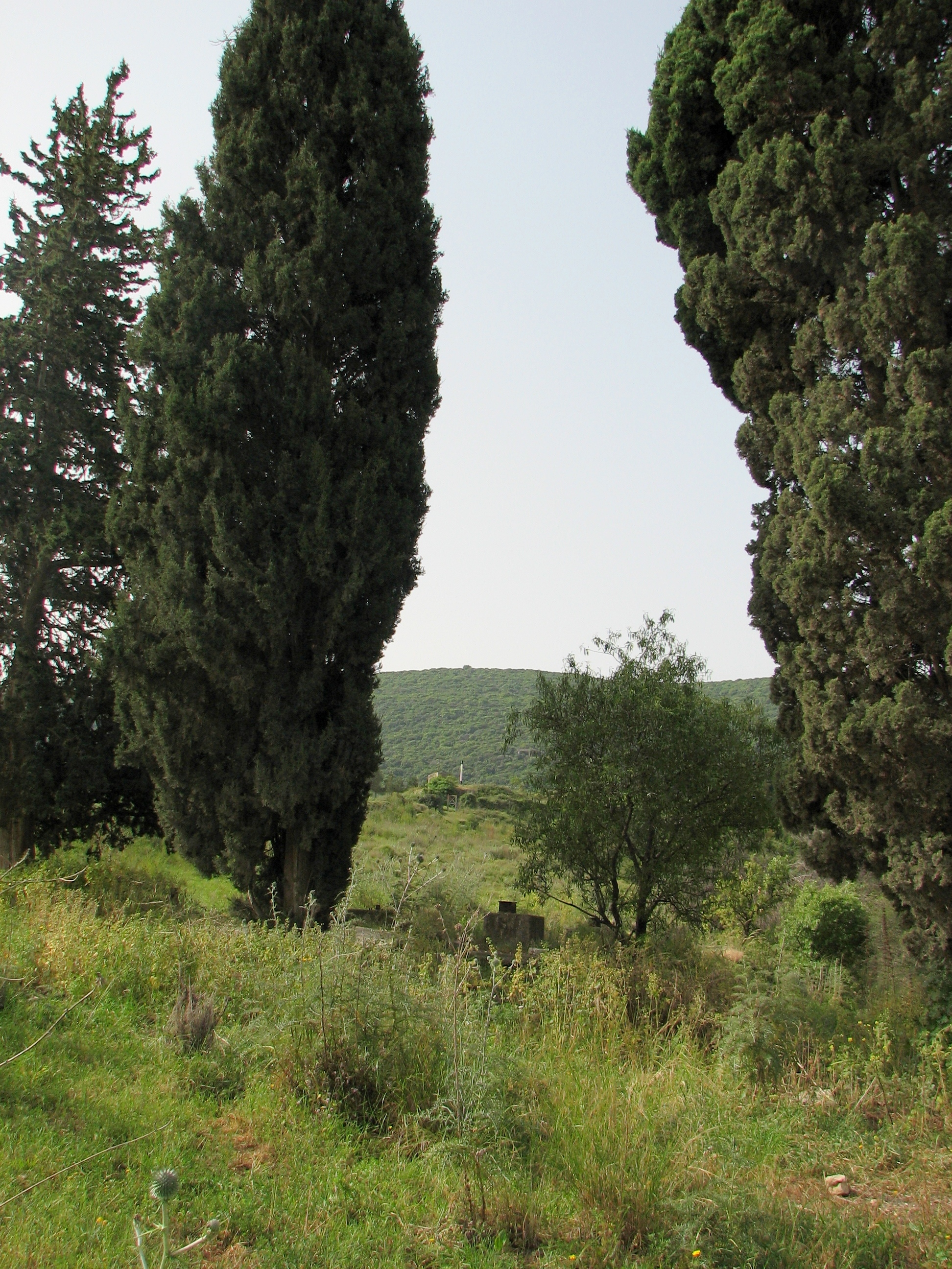 Nesher Old Quarry belongs to "Nesher Israel Cement Enterprise". Was opened on 1925 and closed on 1942. The quarry was reconstructed. Now in the city Nesher.